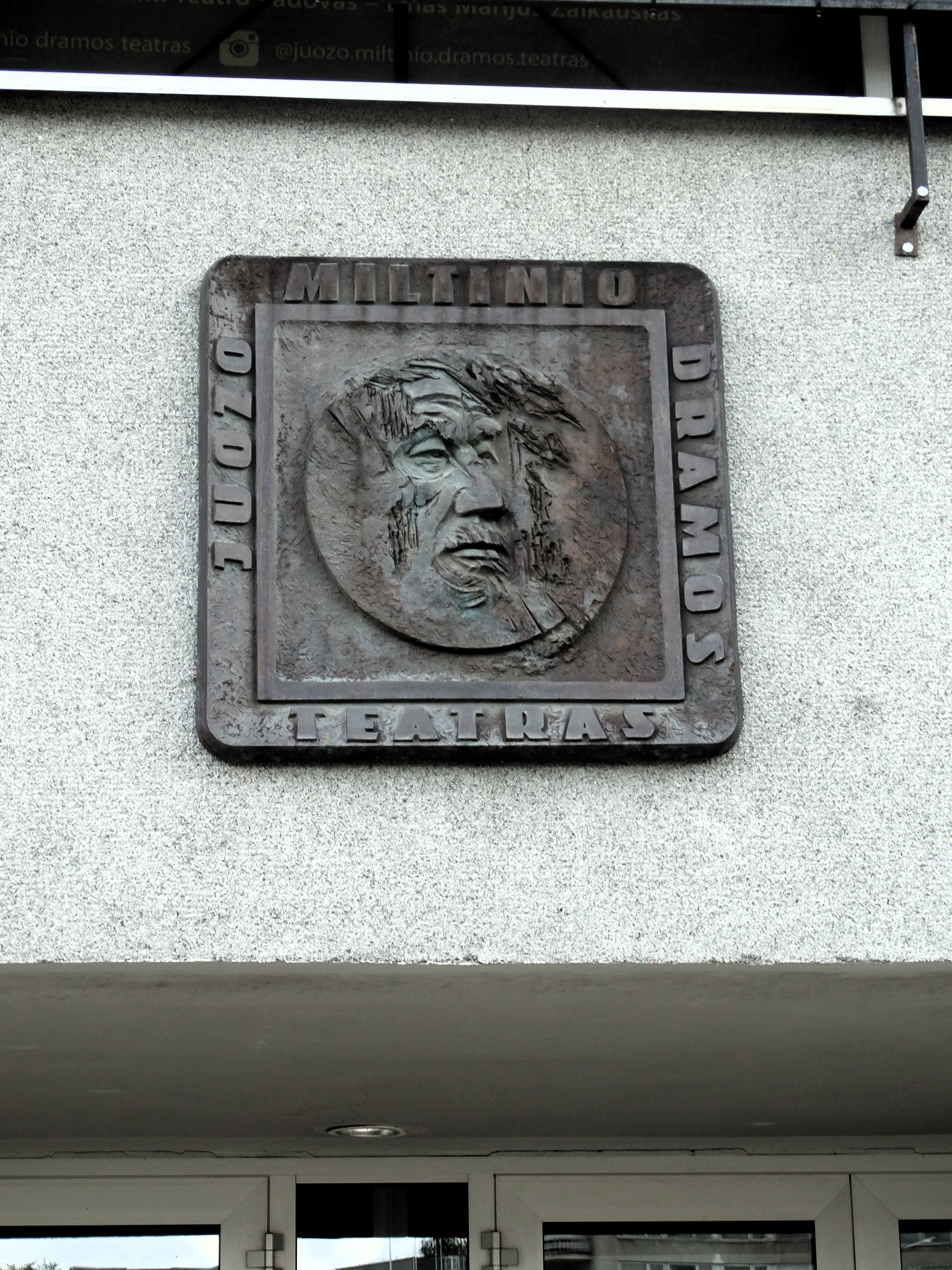 Juozas Miltinis drama theatre, Panevėžys, Lithuania